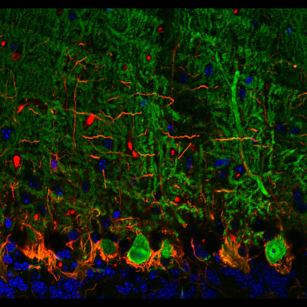 Mouse Cerebellum with Purkinje cells (calbindin, green) and Basket cells (Neurofilament, red) . Nuclei are blue (DAPI). Lase scanning Microscopy